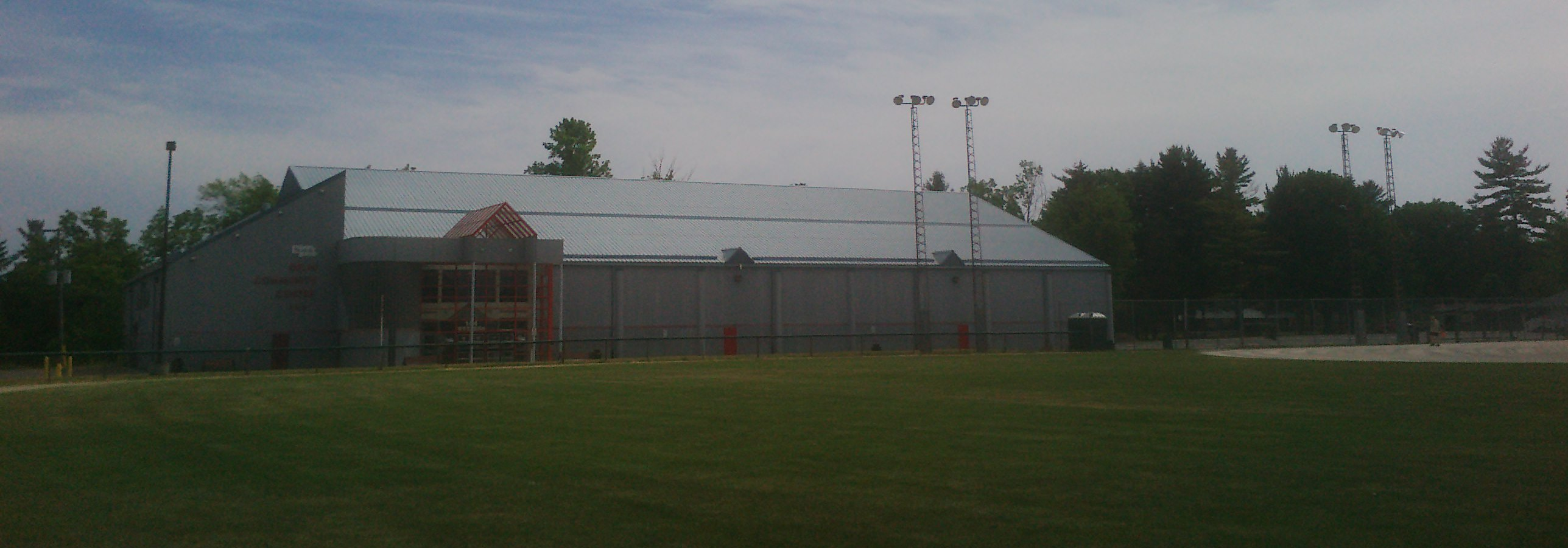 Delhi Community Center. Delhi, Ontario, Canada. Home of the Dehi Travellers hockey team.